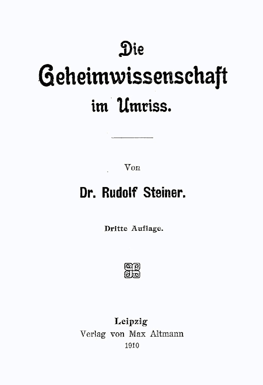 Front cover of Rudolf Steiner - Geheimwissenschaft im Umriss, 1910